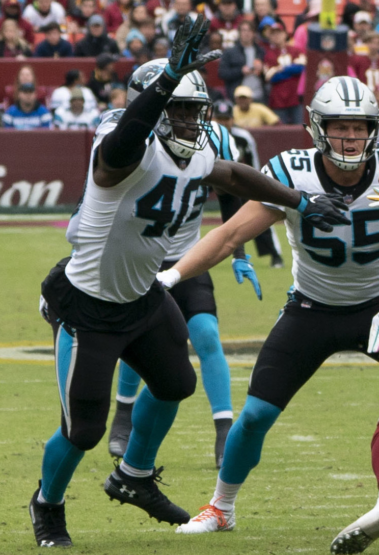 Tress Way of the Washington Redskins punts to the Carolina Panthers during a 2018 game at FedEx Field